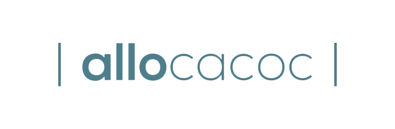 This is the latest version of Allocacoc's logo. It has been used in their company website, official webshops and so on.